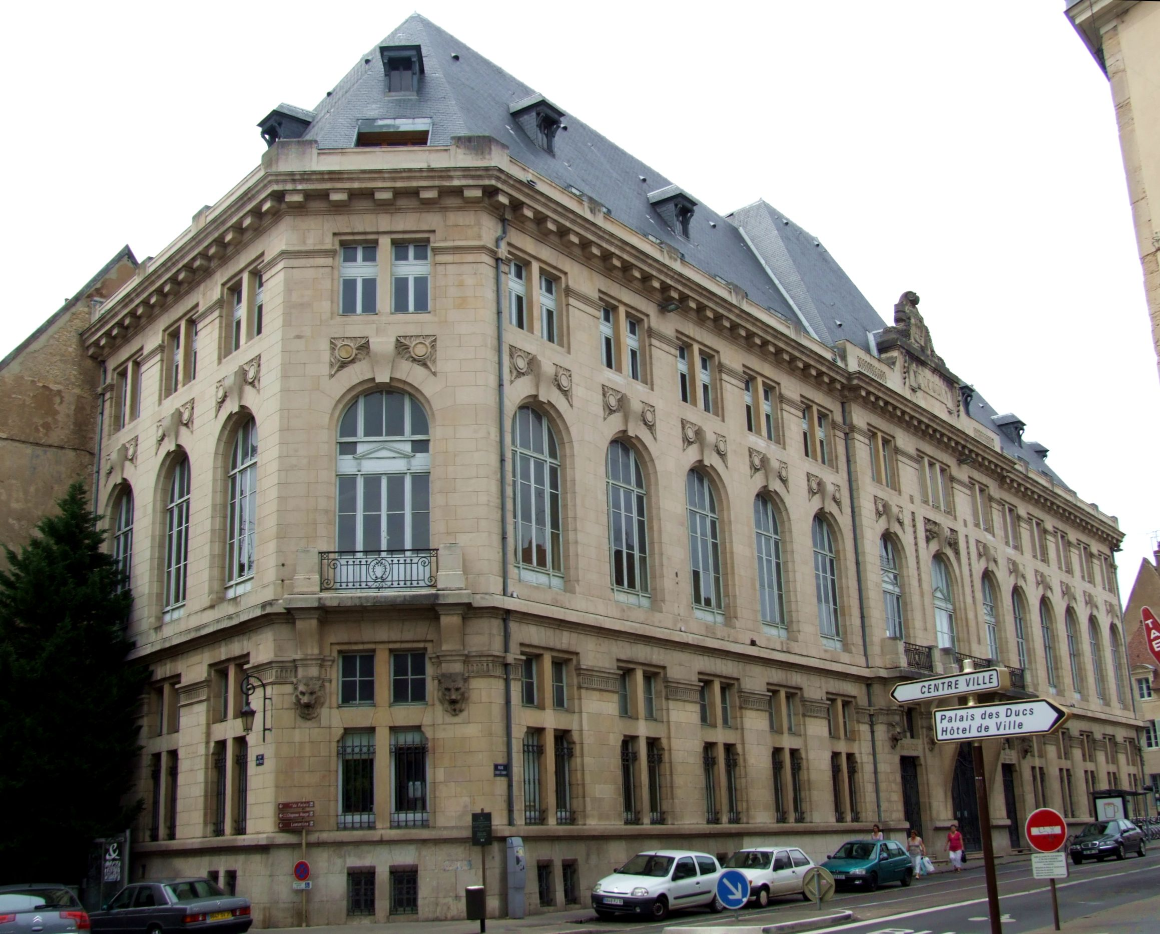 Dijon, Burgundy, France